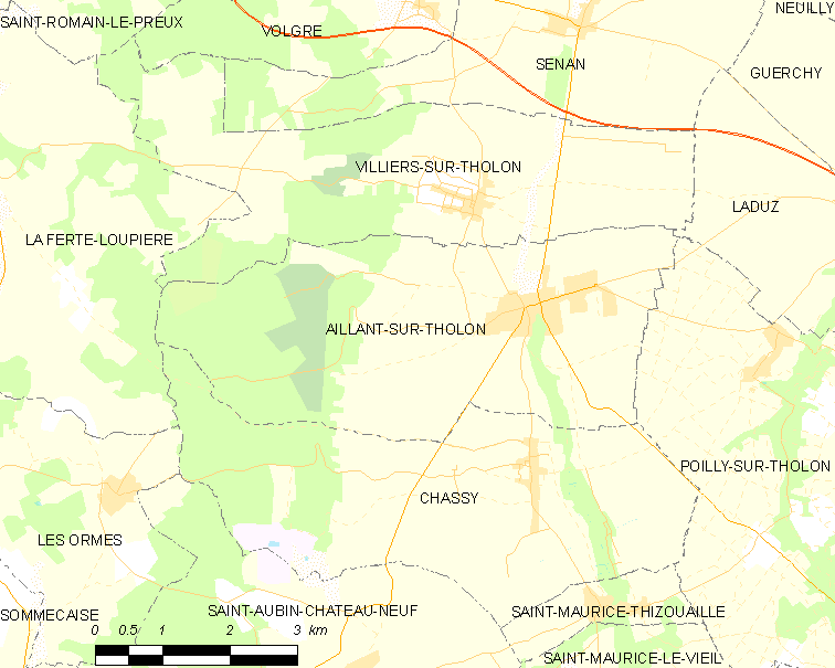 Map of French municipality Aillant-sur-Tholon